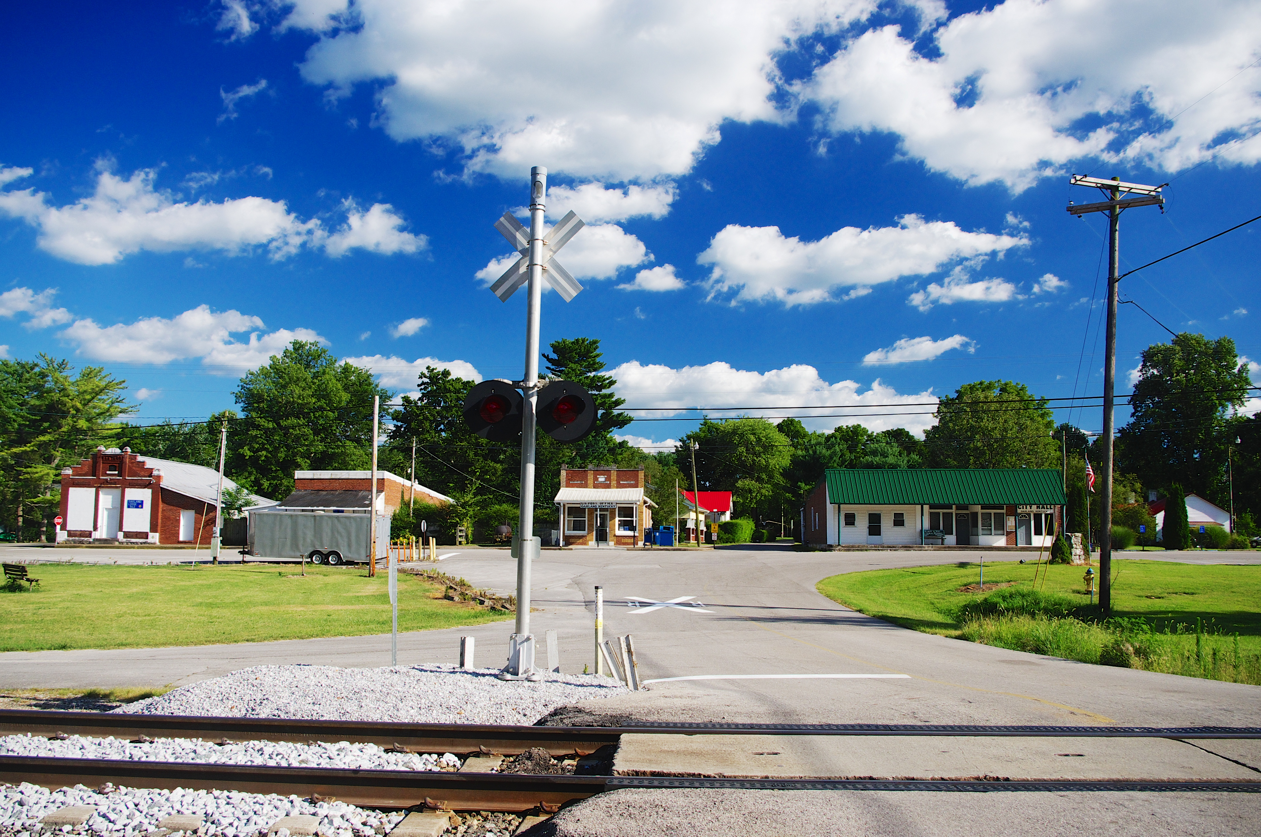 Railroad tracks and buildings along Main Street in Oakland, Kentucky, United States.